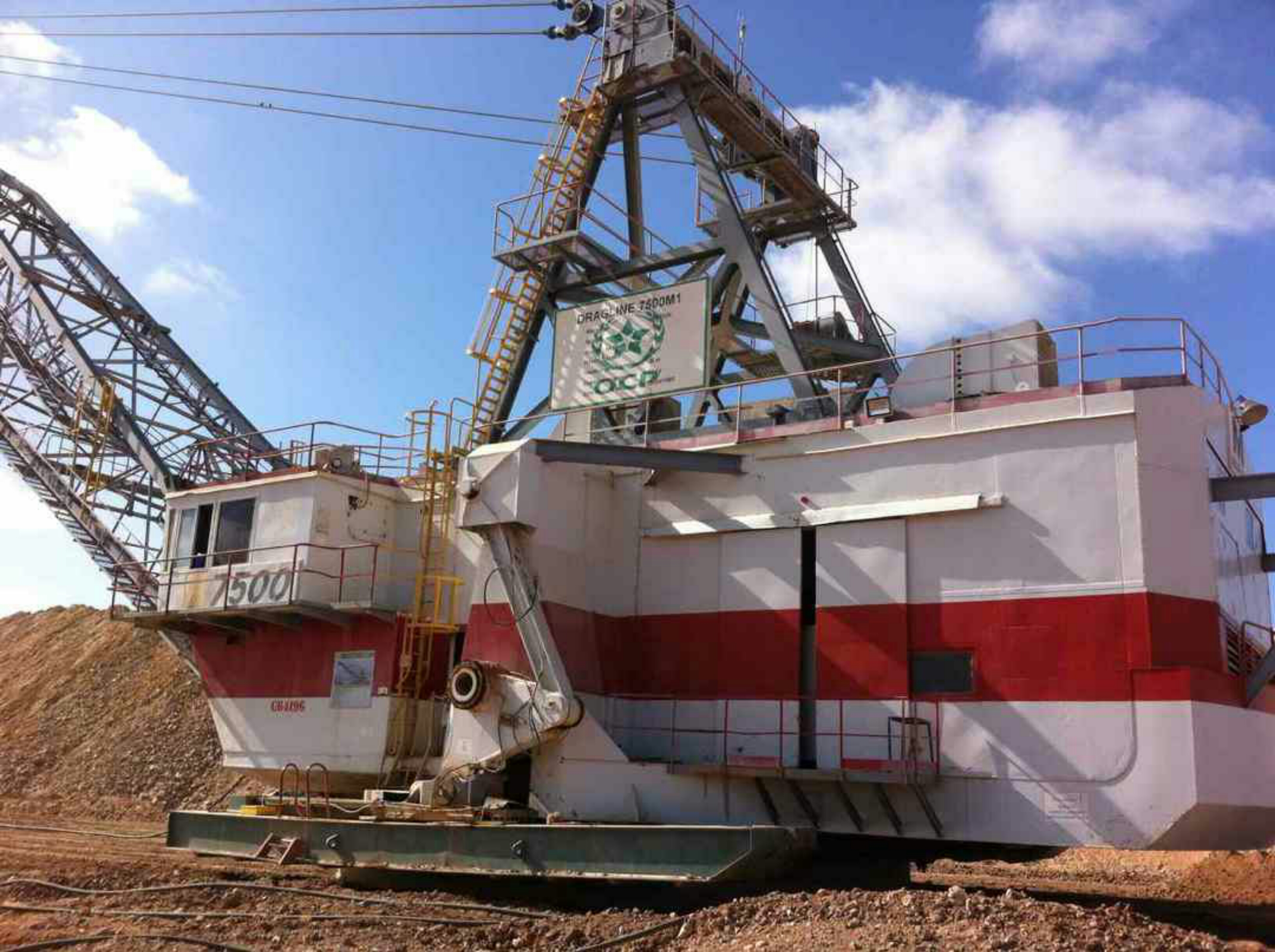 Dragline track in Benguerir phosphate mine morocco.